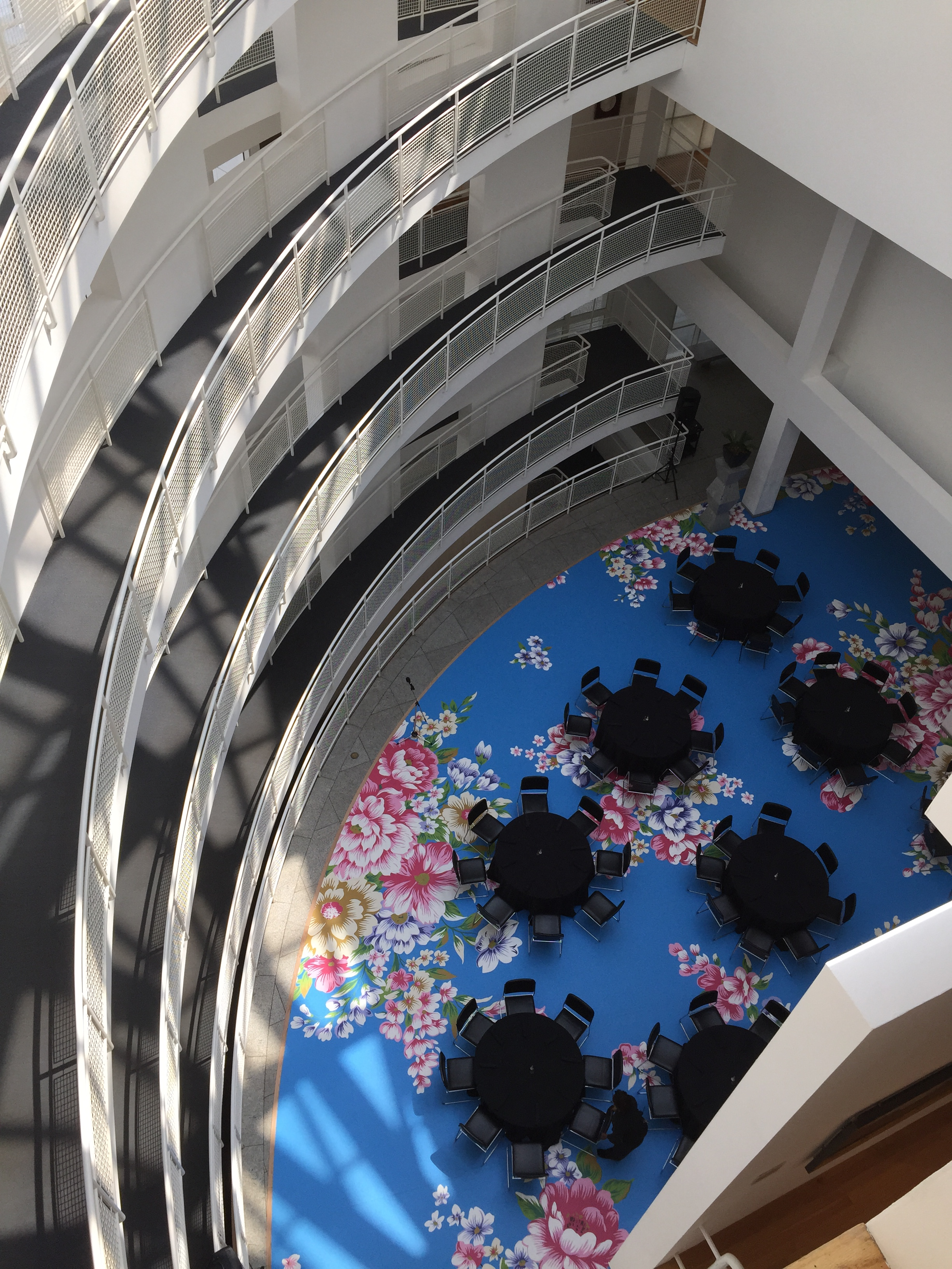 Interior of the High Museum of Art atrium viewed from an upper floor.